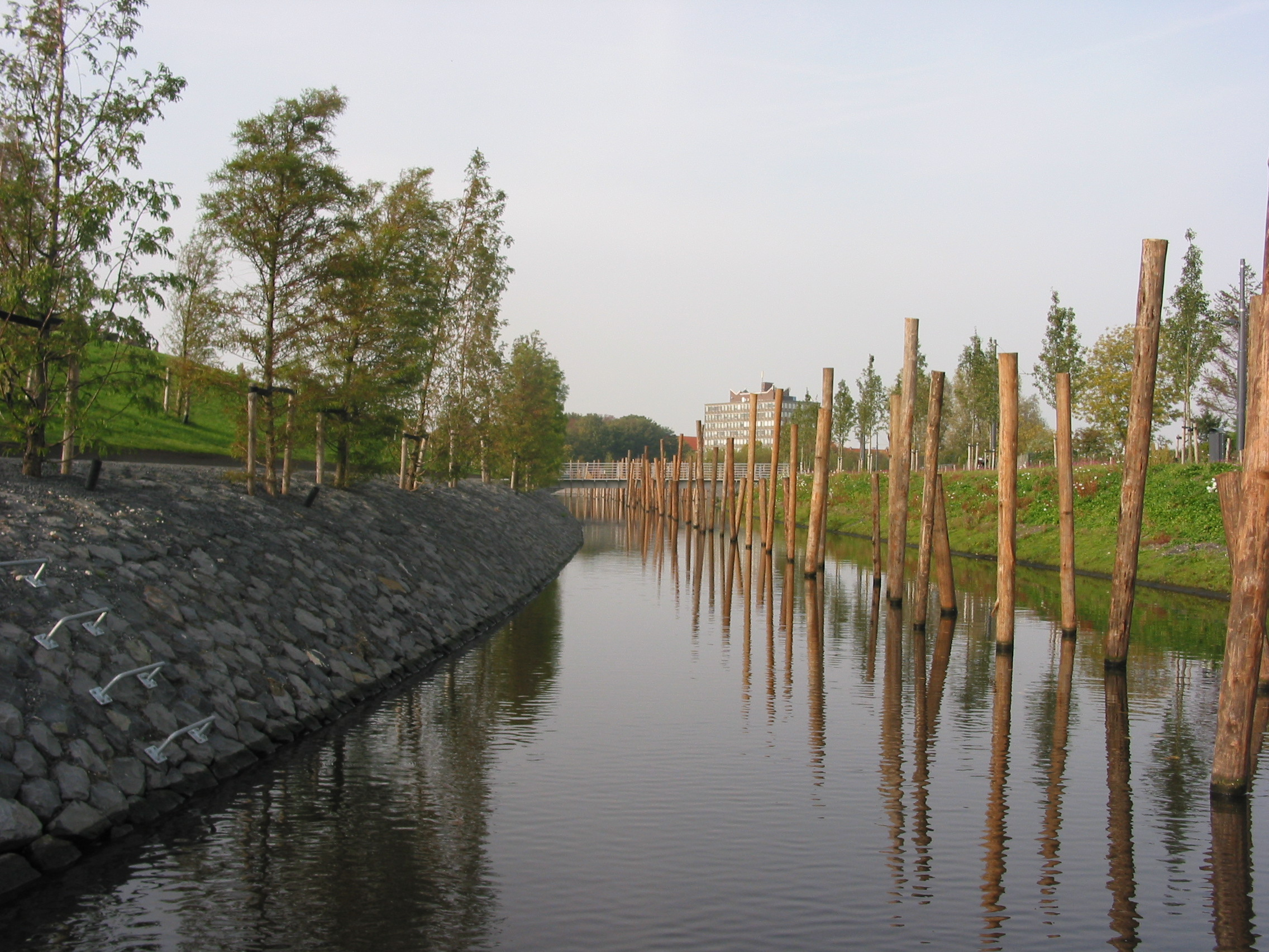 Park Schinkeleilanden, Amsterdam.